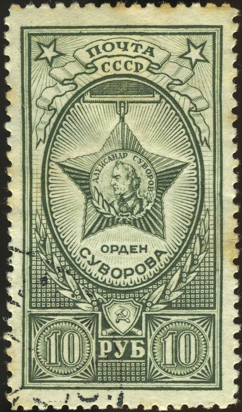 A USSR stamp, Awards of the Soviet Union